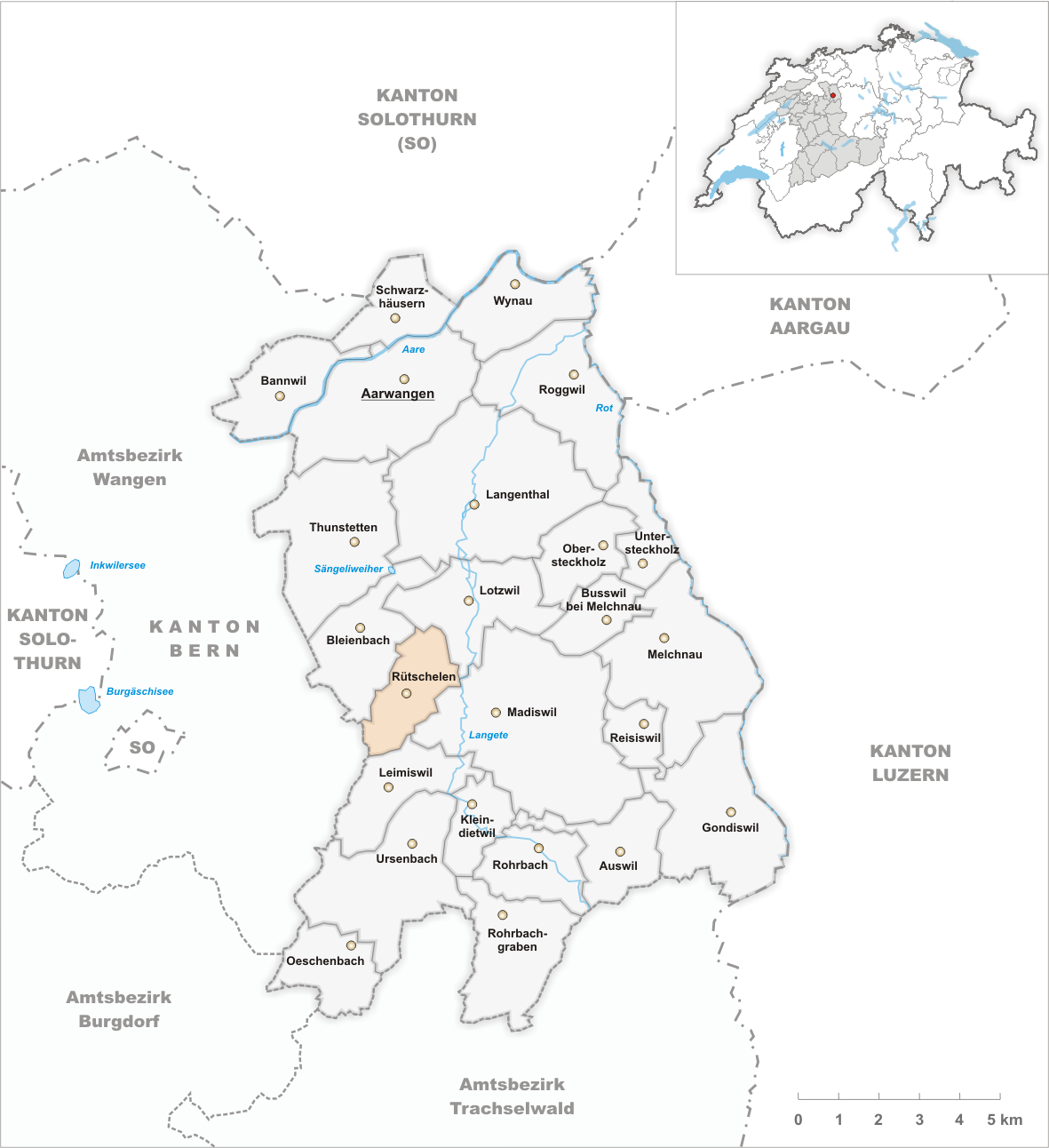 Municipality Rütschelen